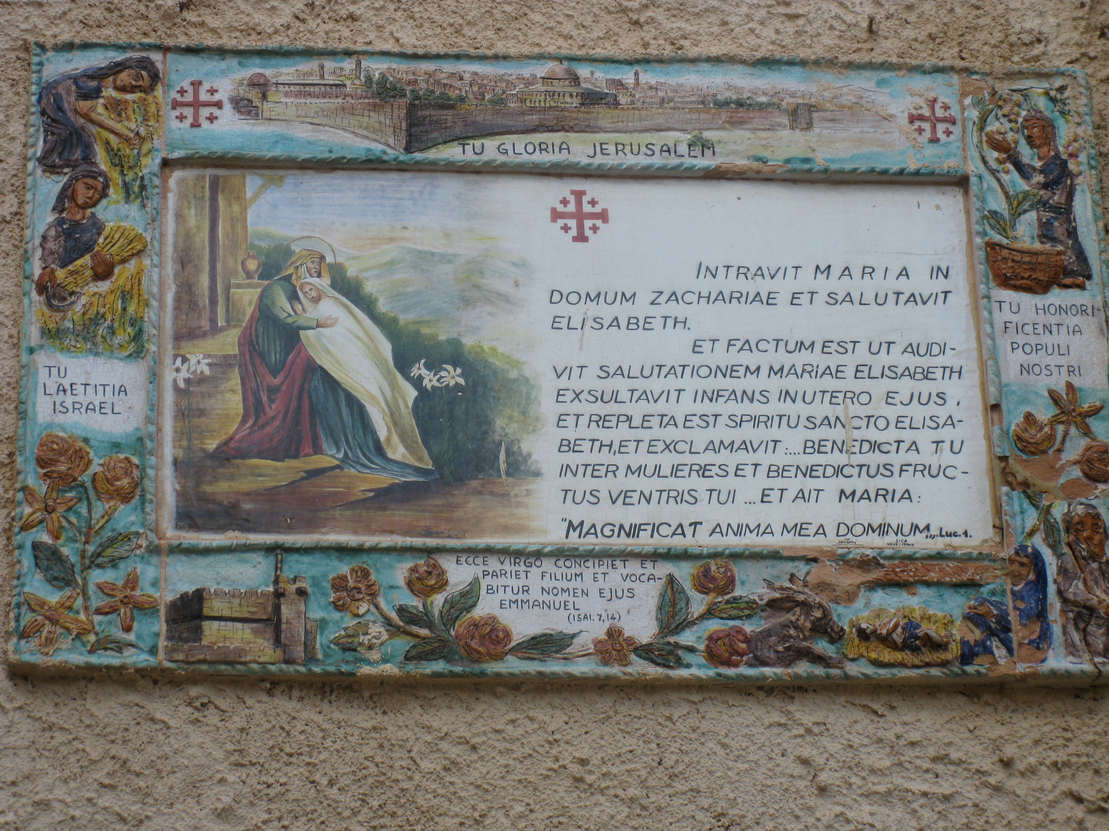 The Magnificat in the Church of the Visitation